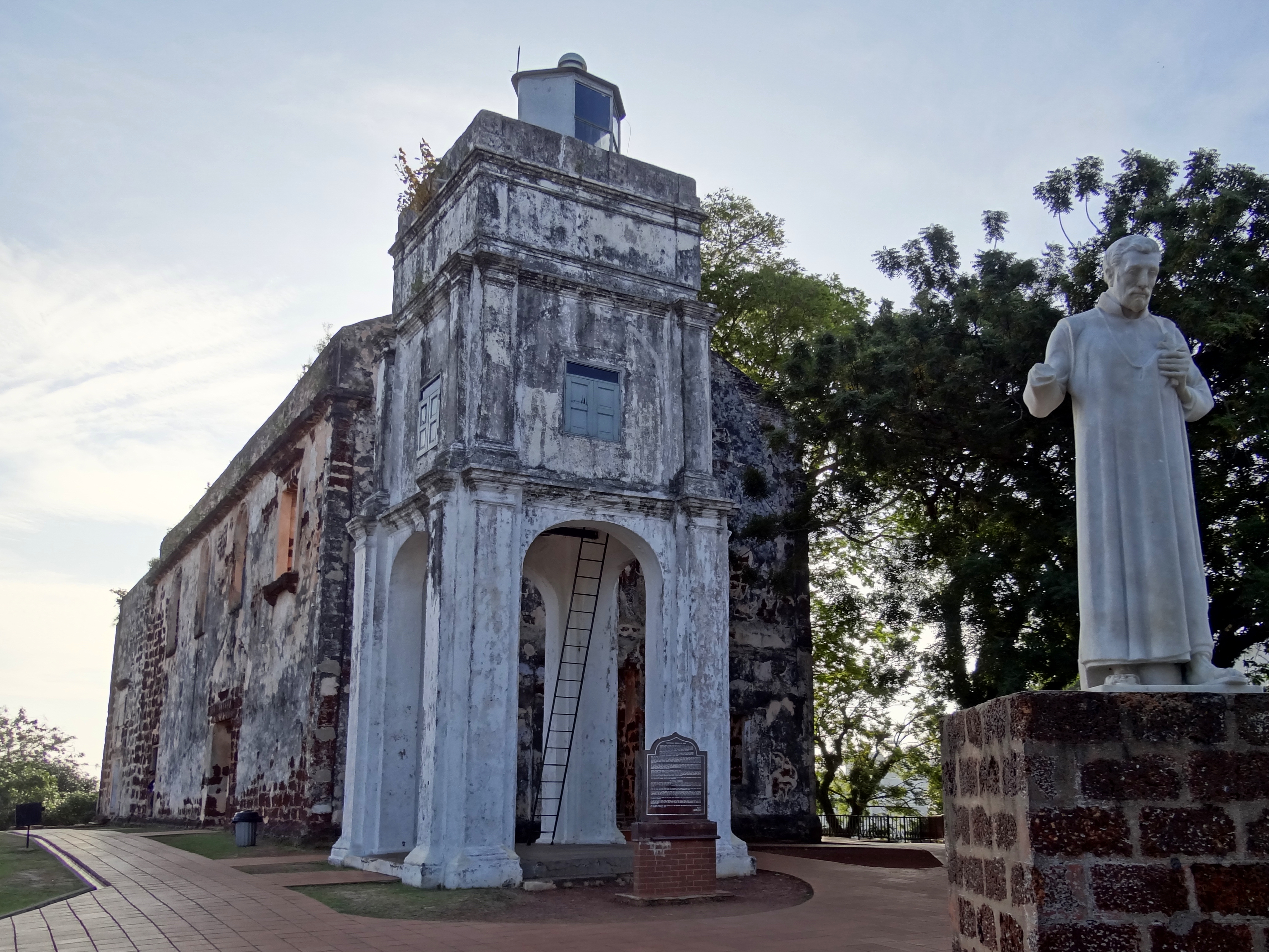 St. Paul's Church in Malacca, Malaysia, photographed early in the morning in January. In front of it is a St. Francis Xavier statue.